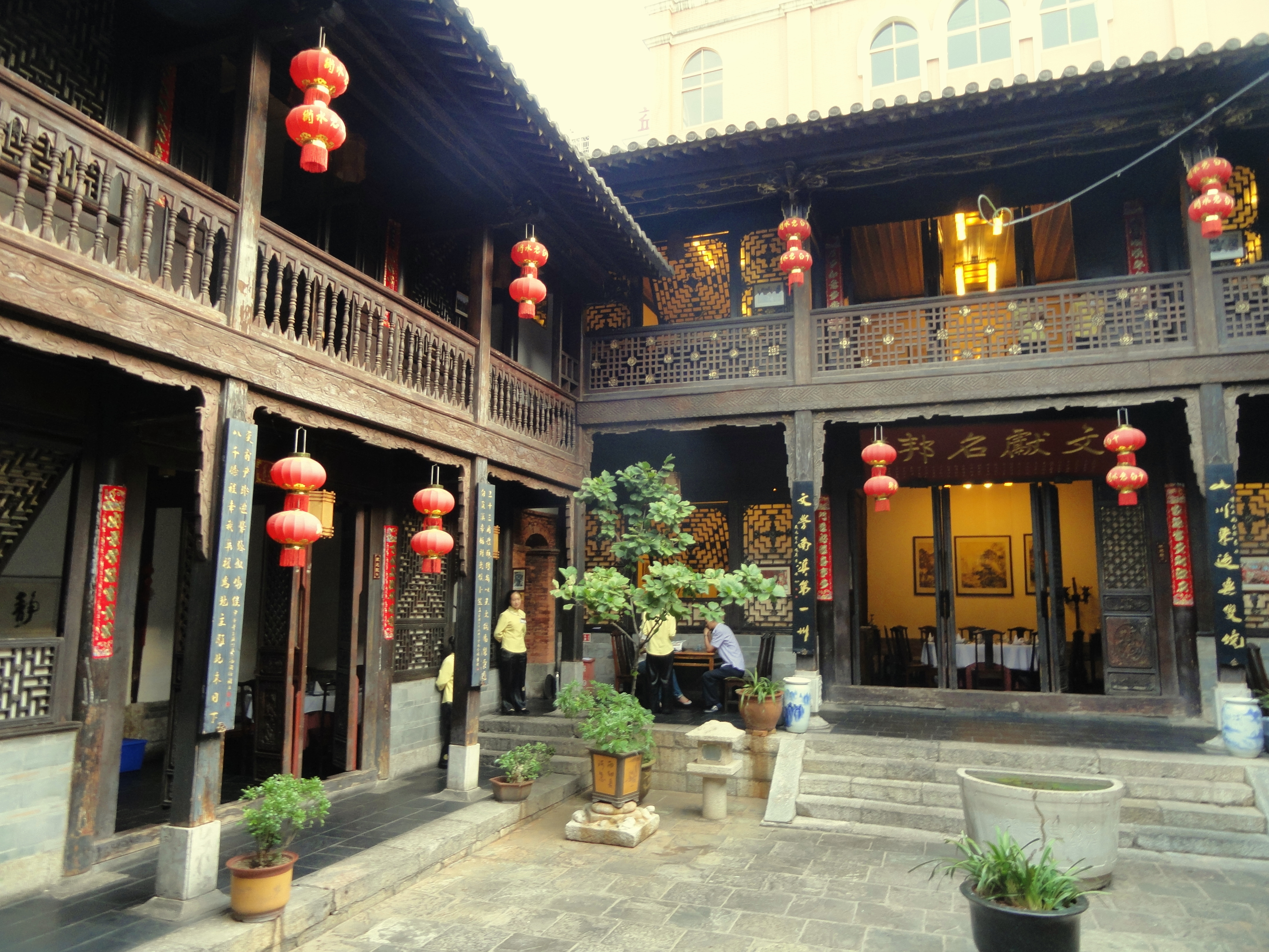 "Dereins" restaurant, located within an old house in Kunming, Yunnan, China.